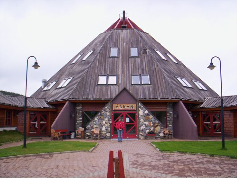 Árran, Lule Saami cultural center